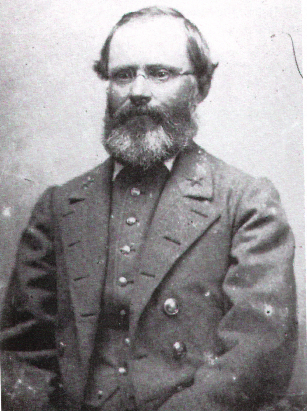 Colonel D.B. Harris (Confederate Engineers)